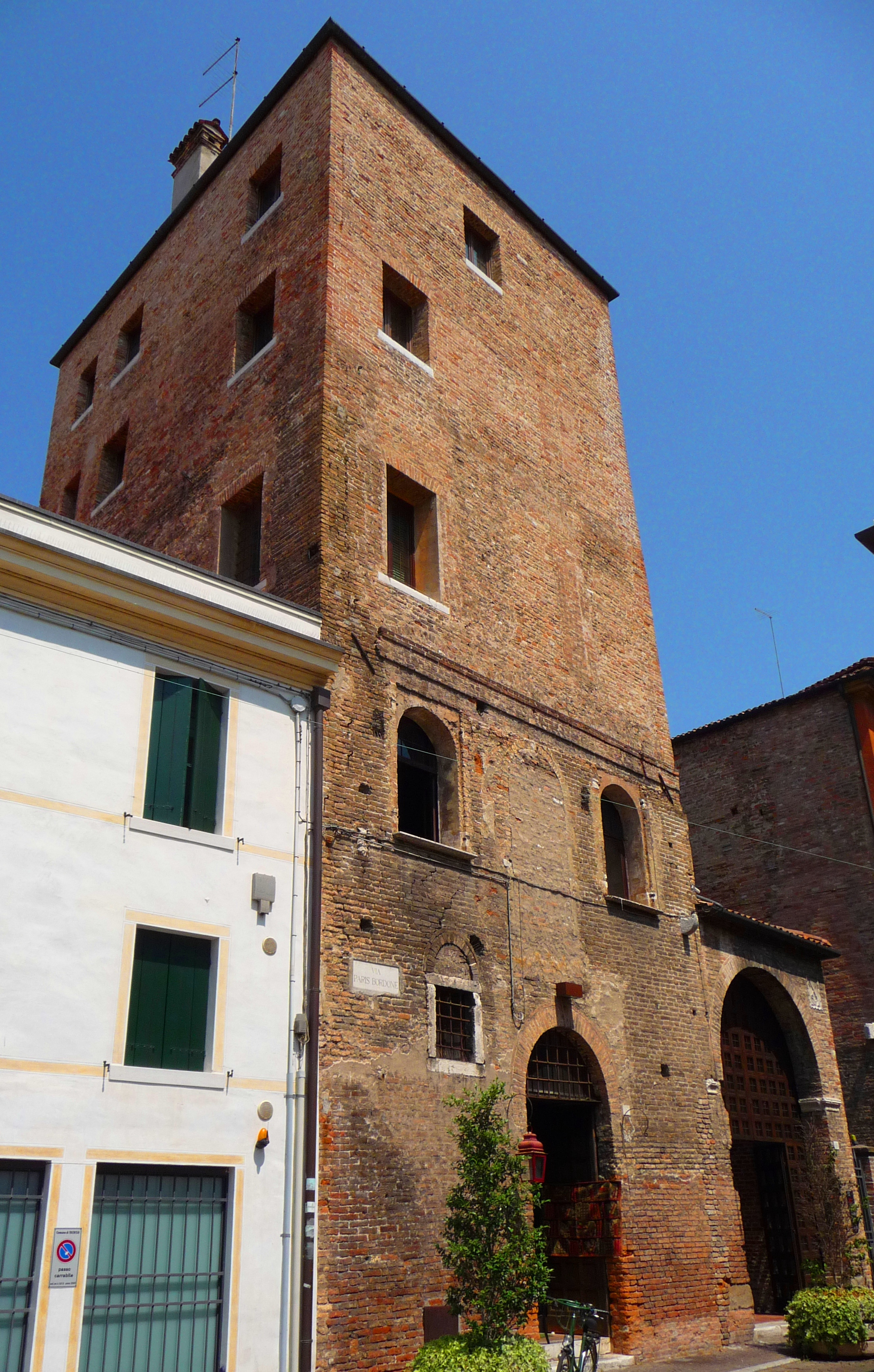 tower "of the count Giovanni" in Treviso